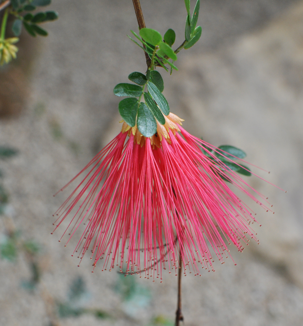 Calliandra purpurea Conservatoire botanique national de Brest Native nameConservatoire botanique national de BrestLocationBrest, FranceCoordinates48° 24′ 10.35″ N, 4° 26′ 53.58″ W Established1975: established, 1978: opened to publicWeb page control : Q2994486 ISNI: 0000 0000 9261 8684 LCCN: no95047958 WorldCat institution QS:P195,Q2994486